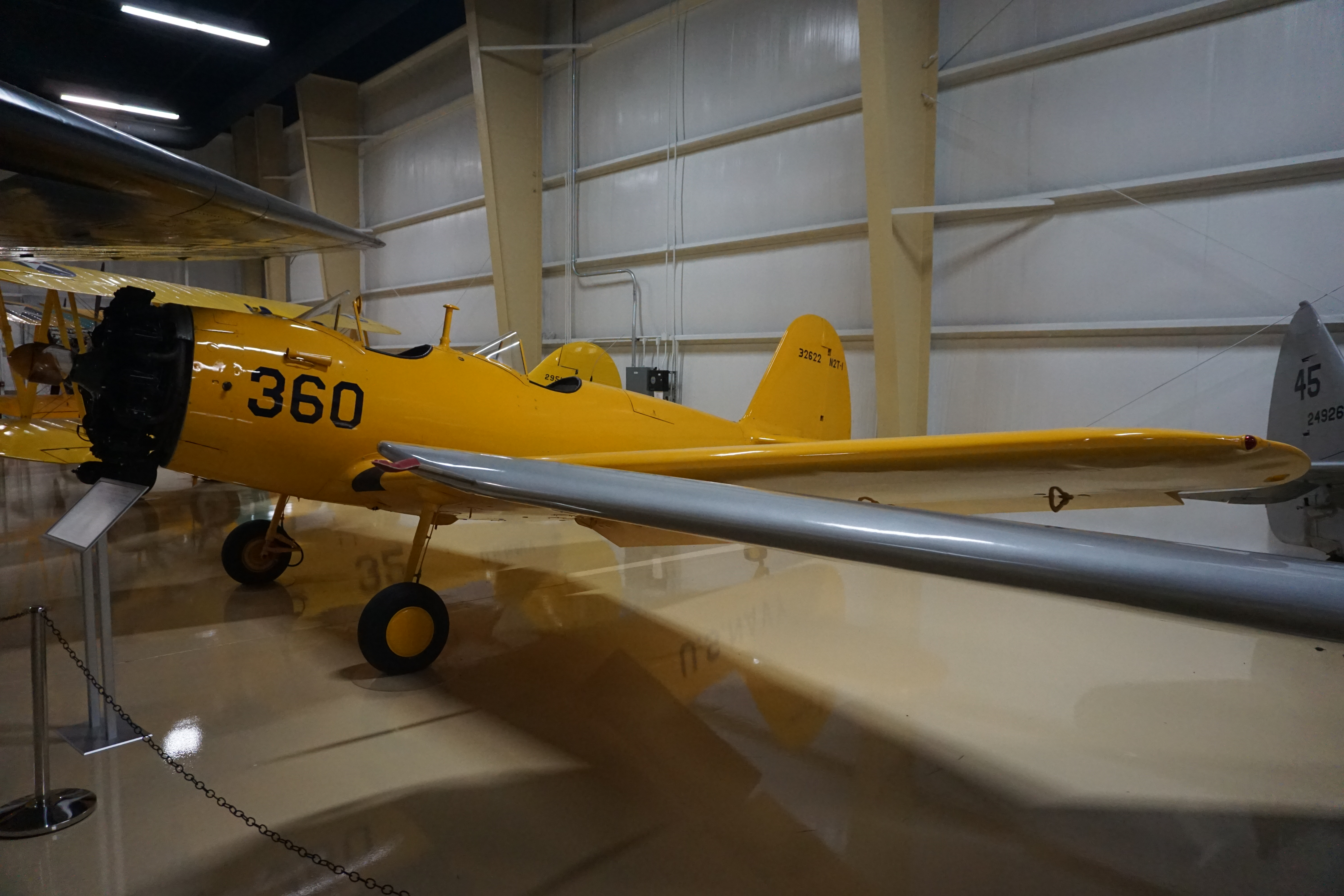 A Timm N2T-1 Tutor on display at the Air Zoo at Kalamazoo/Battle Creek International Airport in Portage, Michigan (United States).